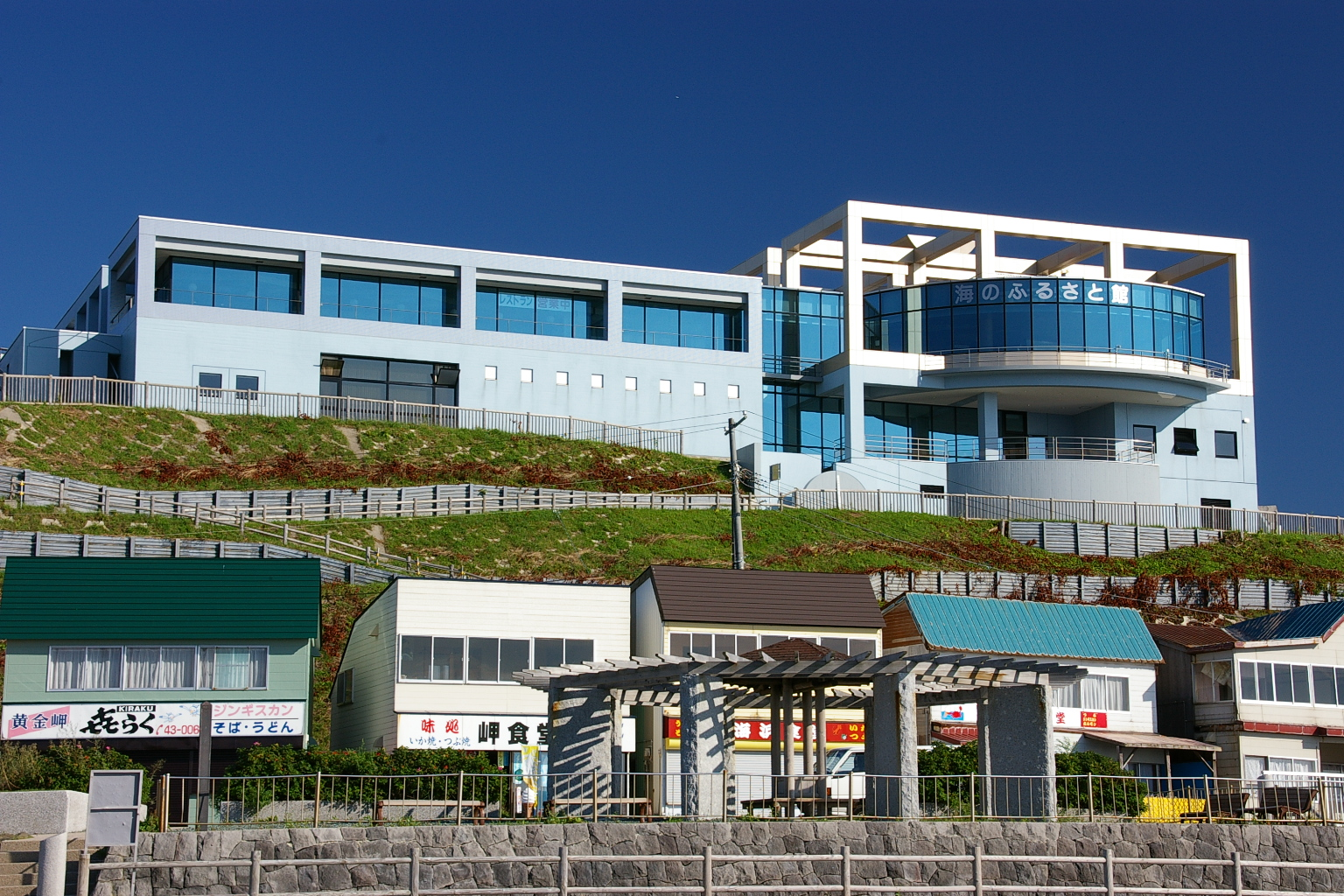 Uminofurusatokan, Rumoi city hokkaido.